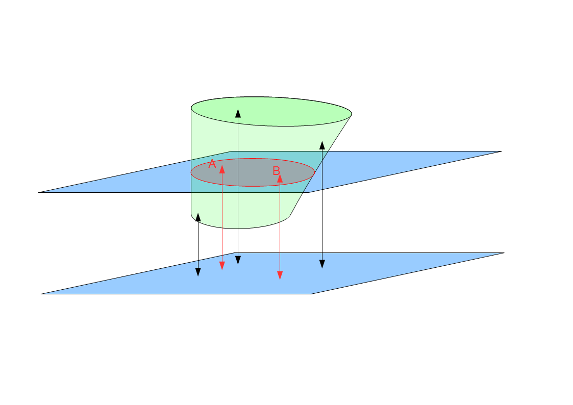 Plane motion